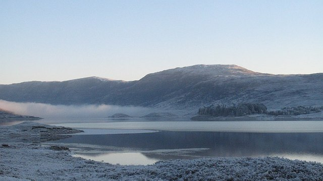 Loch Cluanie: A much enlarged loch for hydroelectric generation. It is nearly full here, although the Ordnance Survey show the loch to cover ground that is rarely flooded. The trees surround Cluanie Lodge with Beinn Loinne in the background.